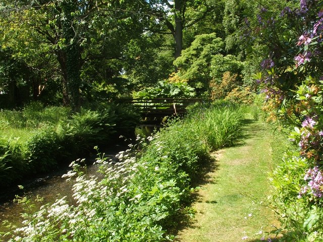 Path beside Geilston Burn. This woodland walk is set within the 10-acre estate of Geilston Gardens. (Compare a view of the same section of path from the window of the potting shed of the nearby Walled Garden: [1]). For the view in the opposite direction along the same stretch of path, see: 430047. The Geilston Burn, which winds through this estate, reaches the River Clyde about a kilometre from here, near a timber yard in Cardross: [2] In the background, just behind the little footbridge over the burn, a patch of Gunnera (a large rhubarb-like non-native plant) can be seen. Gunnera also grows in several places in a shaded glen below the eastern wall of the Walled Garden.